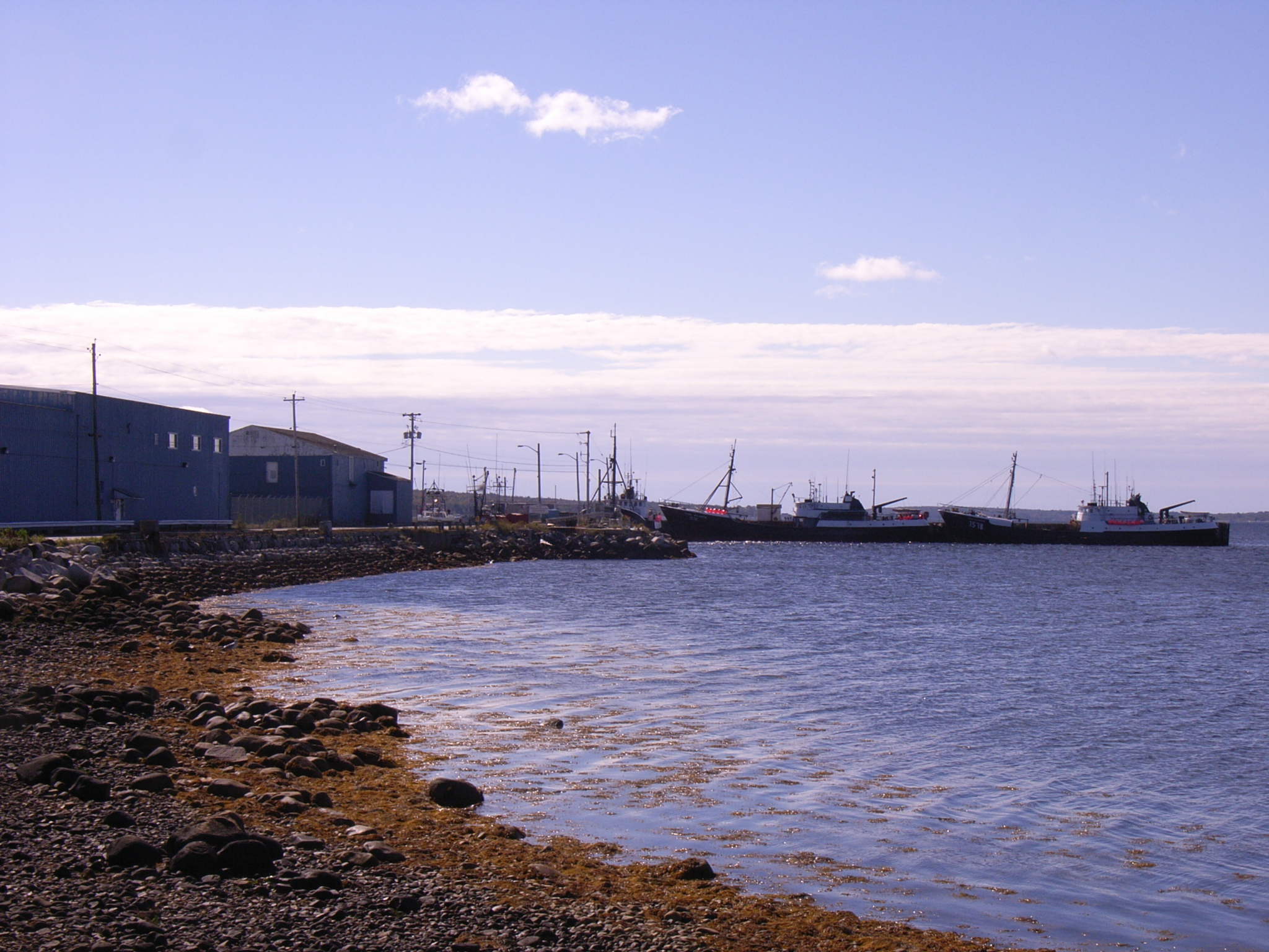 Shelburne, Nova Scotia